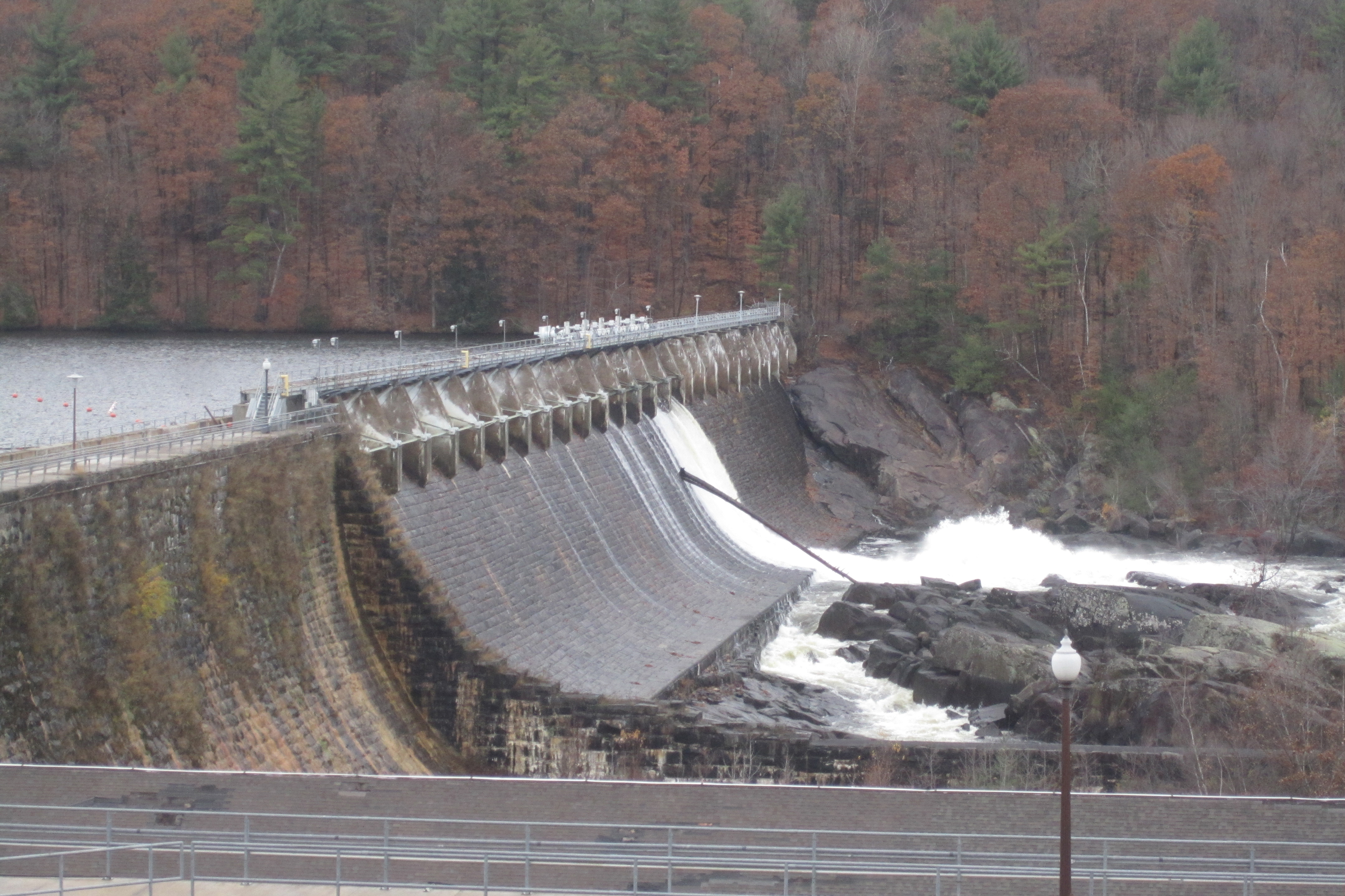 Spier Falls Dam on the Hudson River, Moreau, Saratoga County New York in November 2013.